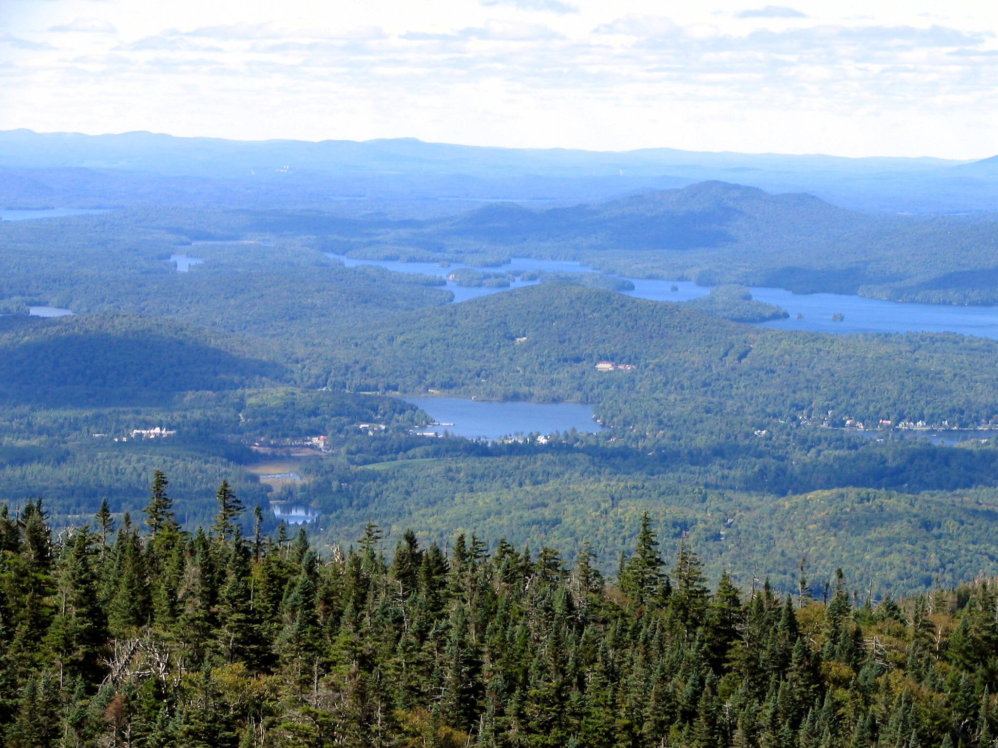 Lower Saranac Lake from Mount McKenzie